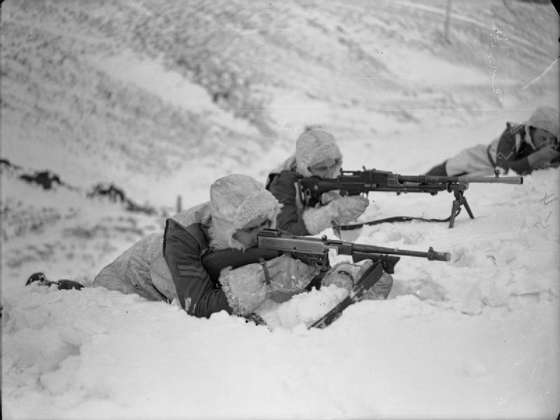 Men of the Royal Marines Division training in deep snow at Hawick near Roxburgh in Scotland